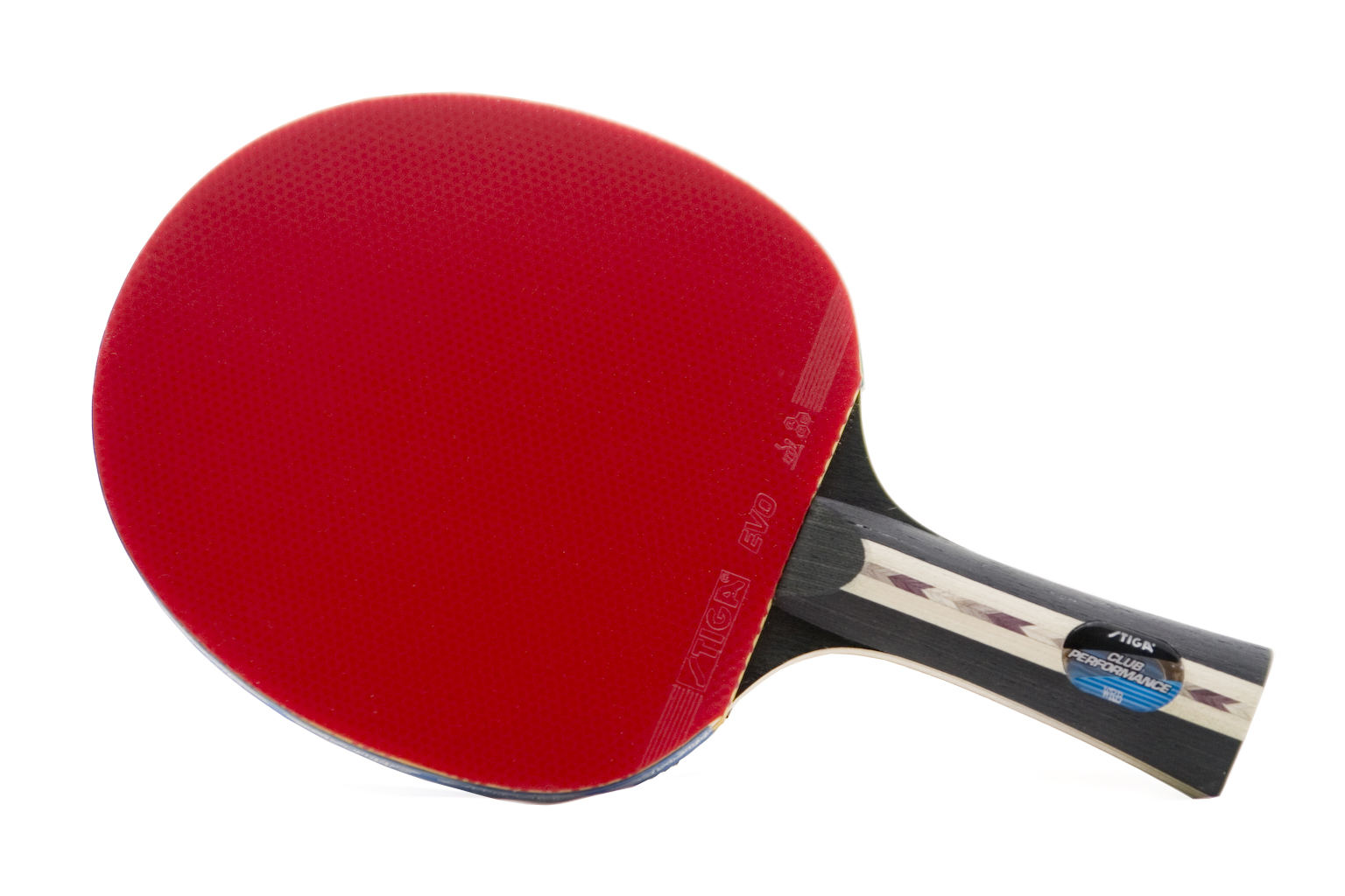 Stiga table tennis bat manufactured 2006. Picture created by User:PJ and User:Piko using a Canon EOS 300D camera with the Tamron 28-75 mm f/2.8 lens.